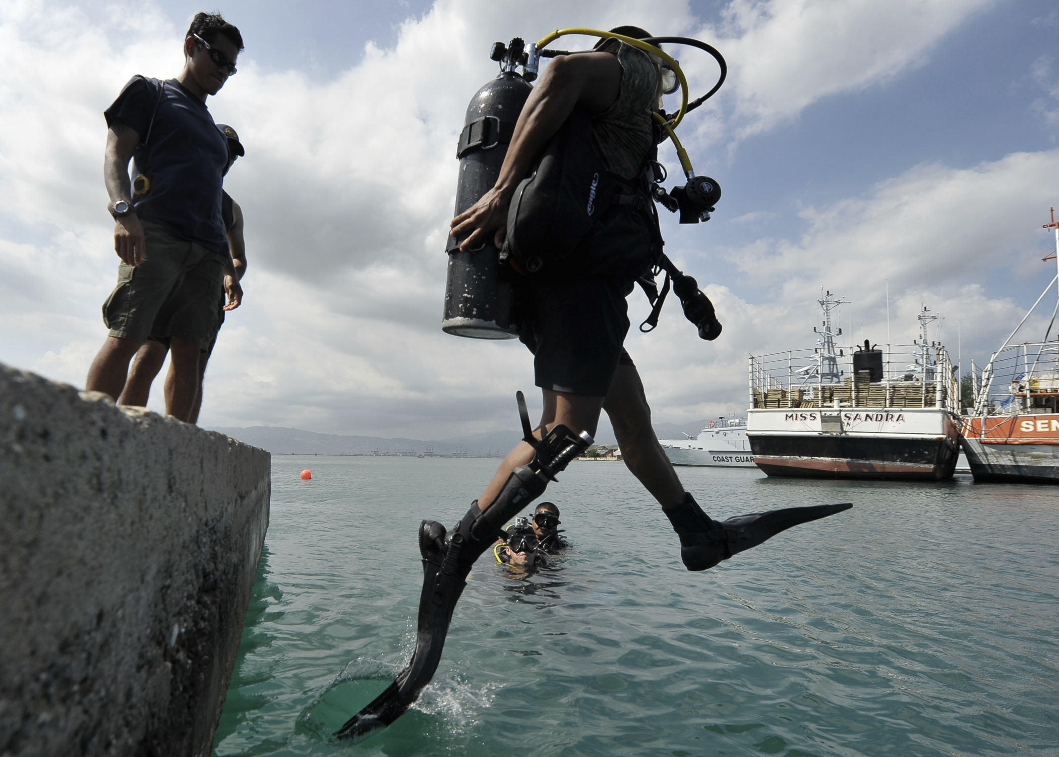 PORT ROYAL, Jamaica (July 27, 2011) Arnulfo Lopez, a diver assigned to the Guatemala navy, conducts a front step entry prior to search operations with Mobile Diving and Salvage Unit (MDSU) 2. MDSU-2 is participating in Navy Diver-Southern Partnership Station, a multi-national partnership engagement intended to increase interoperability and partner nation capability through diving operations. (U.S. Navy photo by Mass Communication Specialist 2nd Class Gregory N. Juday/Released)